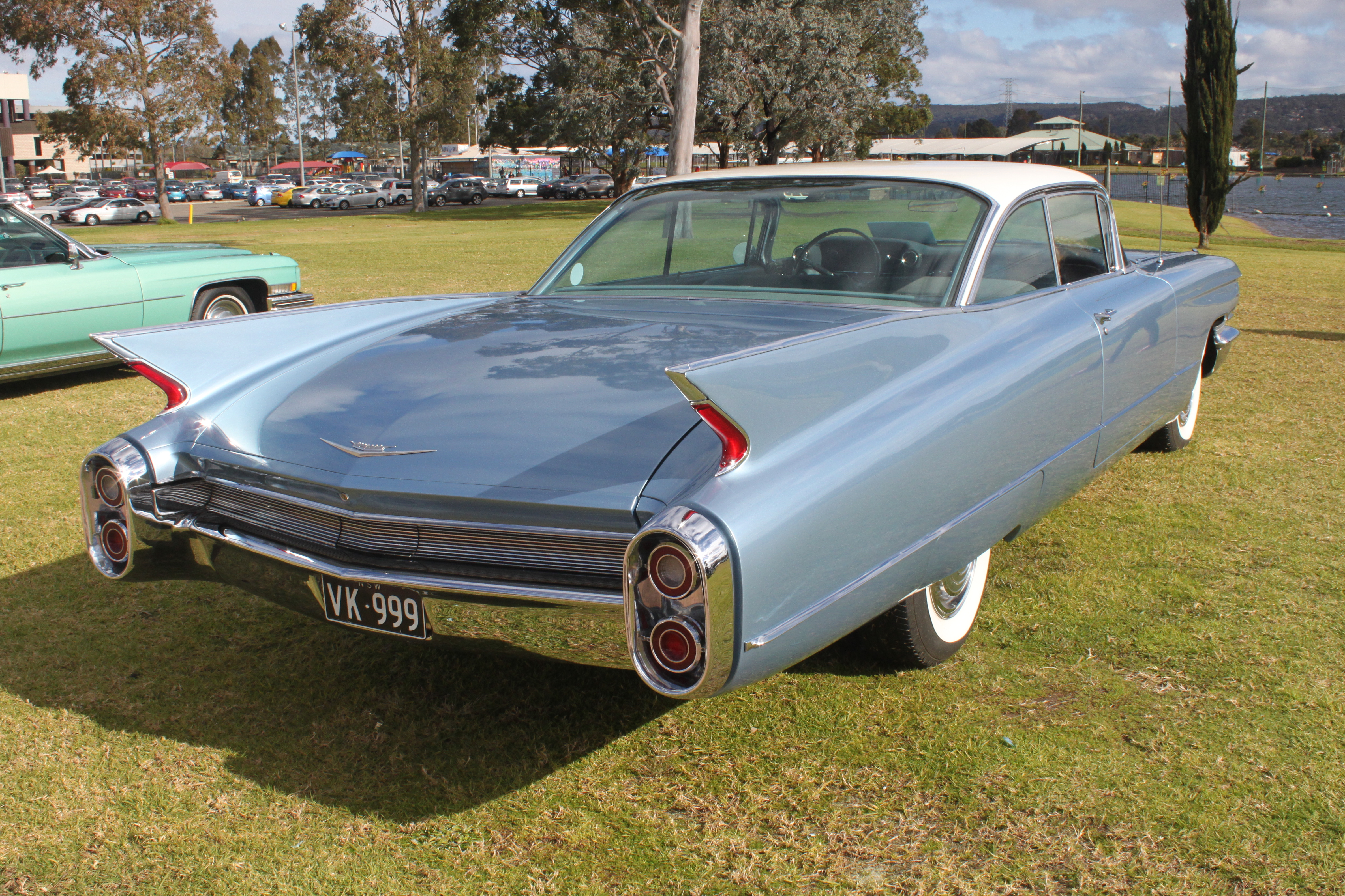 GM Display Day, Penrith Panthers, NSW July 2015